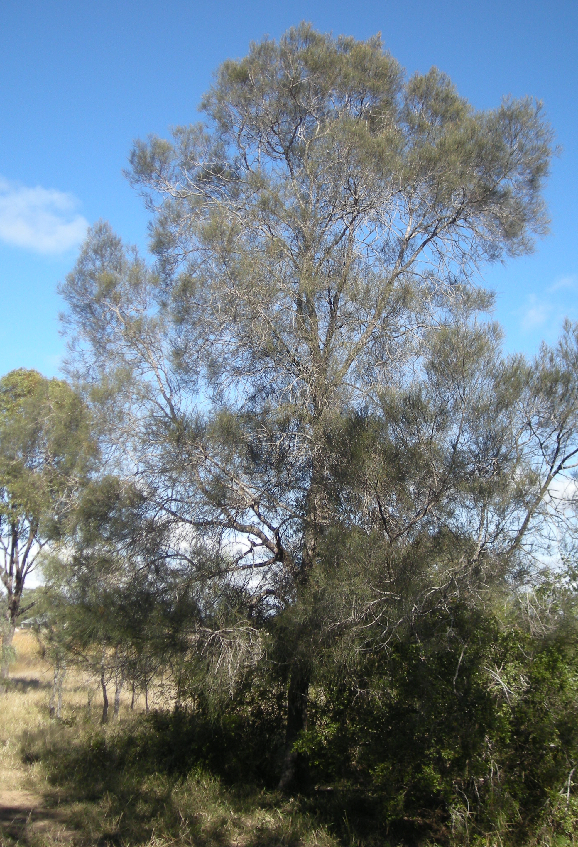 Allocausarina luehmanii tree, Eucalyptus populnea woodland, coastal Central Queensland